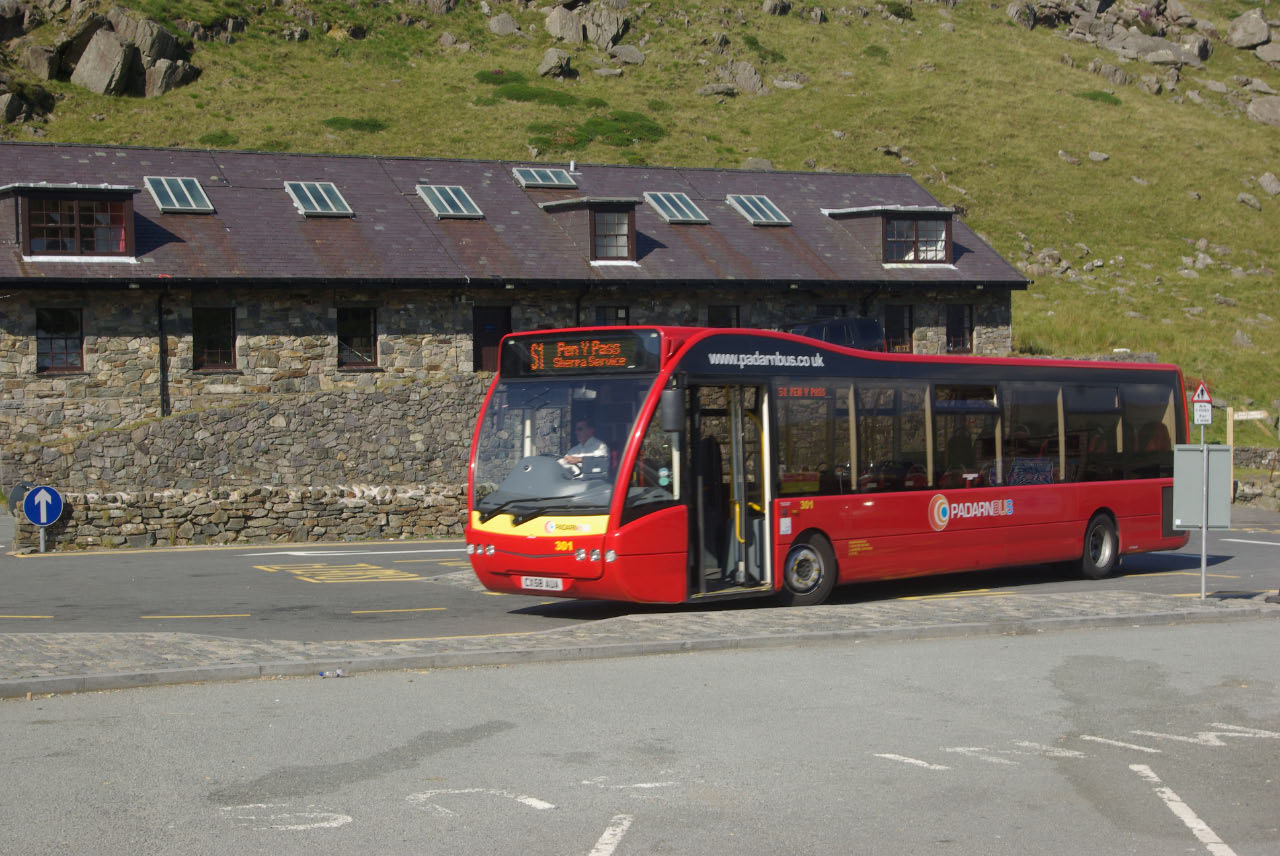 S1 Sherpa Service at Pen-y-Pass, Data from Geograph: Description: A bus operated by Padarn Bus pulls into the bus terminus at Pen-y-Pass, completing its run up the Pass of Llanberis. In a few minutes it will return to Llanberis. ICBM: 53.080446653069, -4.0204510919134 Location: 5 km from Pont Pen-y-Benglog, Conwy, Great Britain.